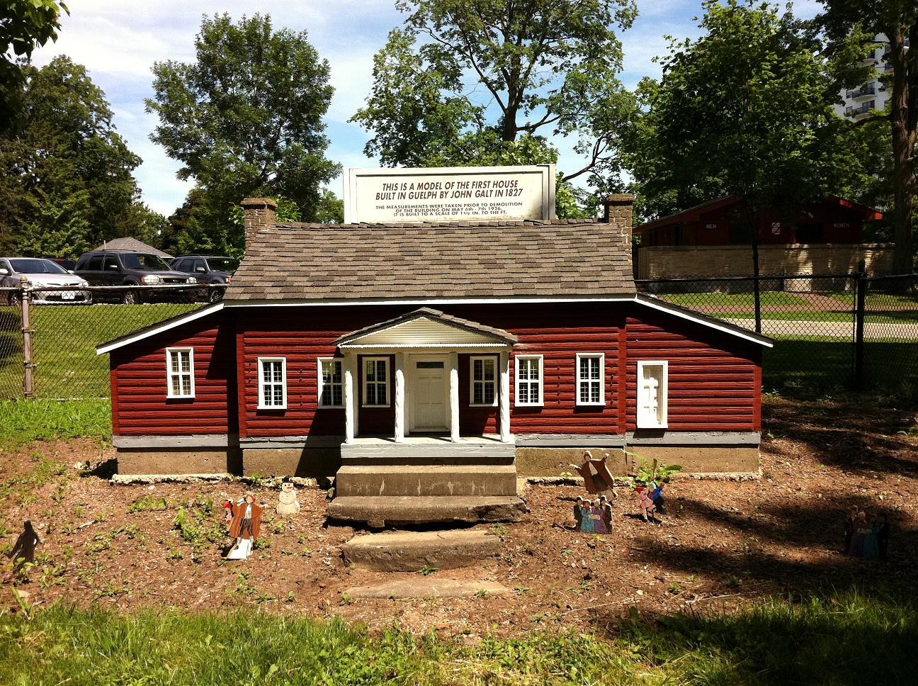 Photograph of the Model House in Riverside Park, Guelph ON.